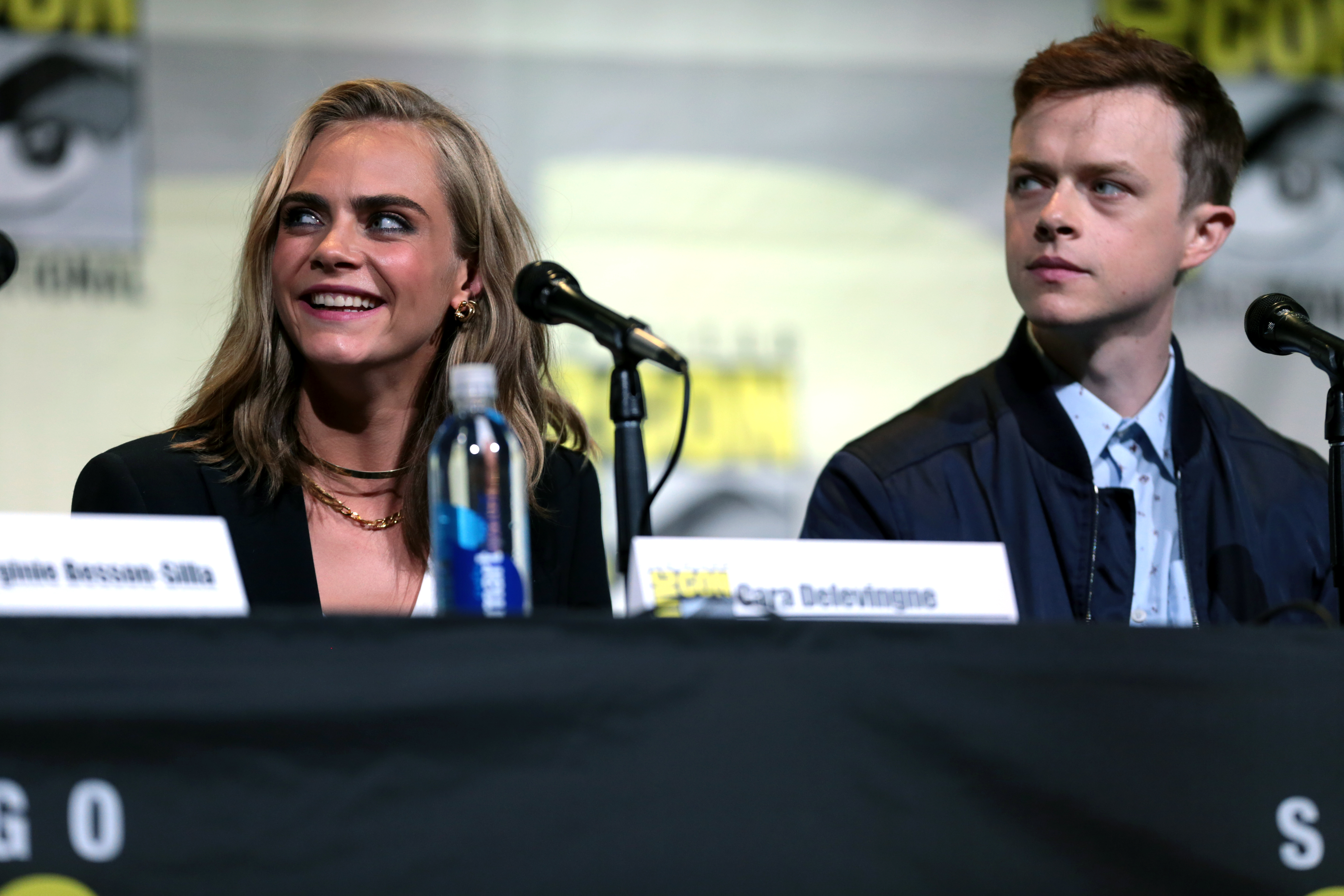 Cara Delevingne and Dane DeHaan speaking at the 2016 San Diego Comic Con International, for "Valerian and the City of a Thousand Planets", at the San Diego Convention Center in San Diego, California.